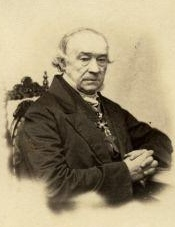 Portrait of Dr. Christian Rein (1796–1862)